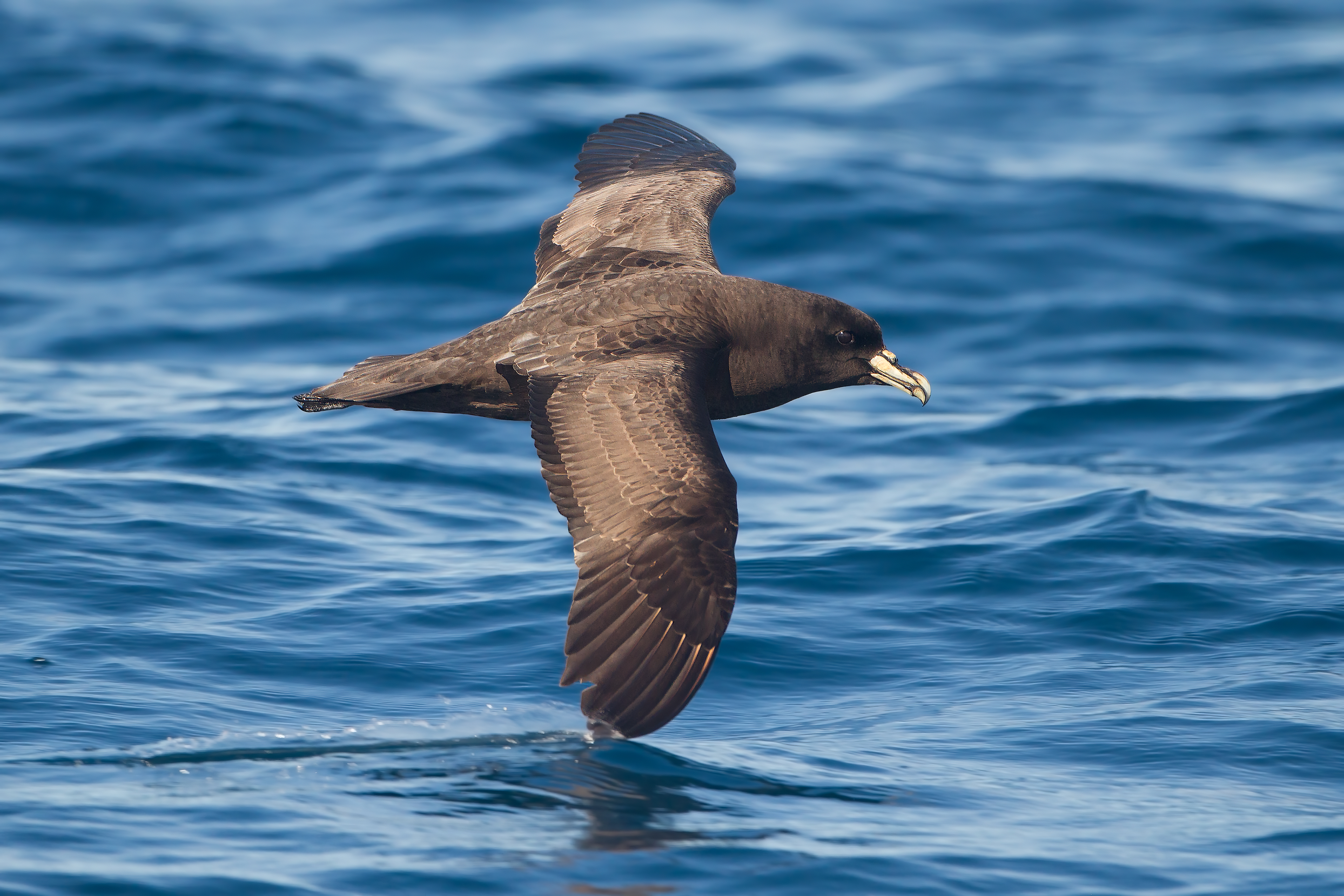 White-chinned Petrel (Procellaria aequinoctialis), East of the Tasman Peninsula, Tasmania, Australia